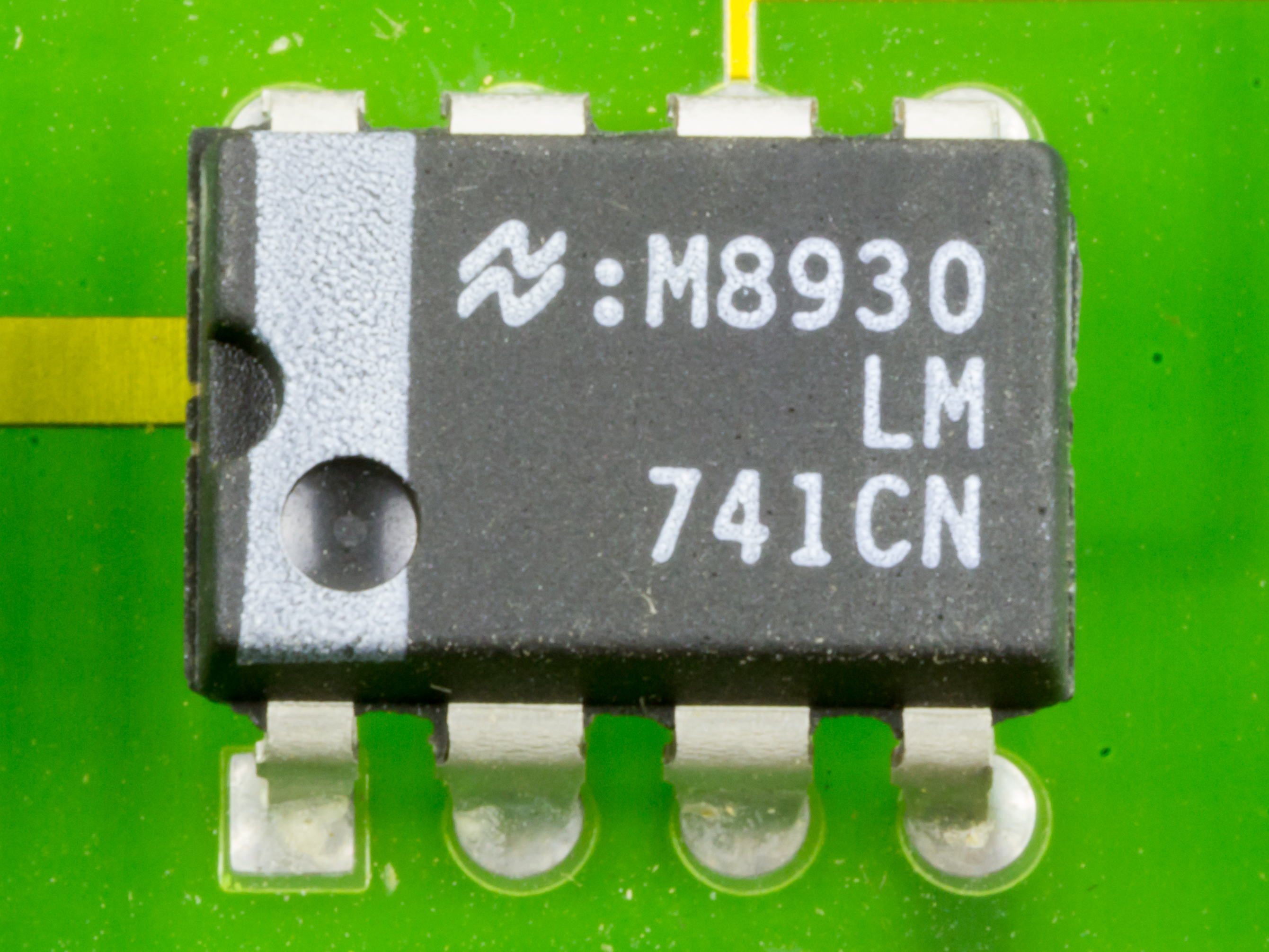 DOV-1X - National Semiconductor LM741CN (Operational Amplifier) on printed circuit board. Package: DIP 8